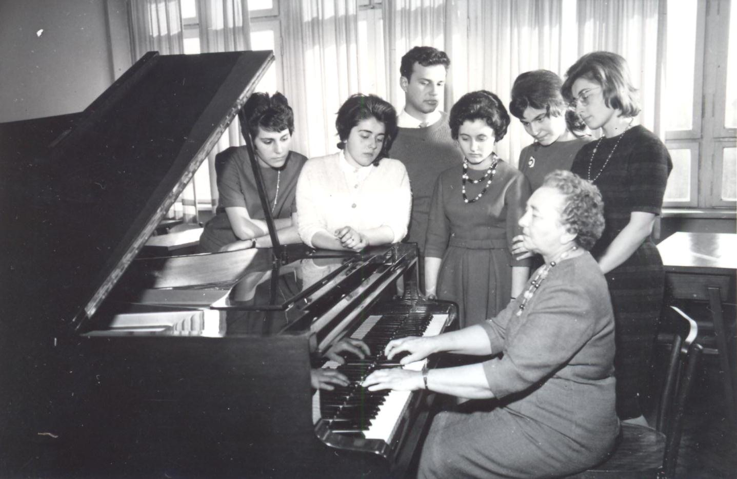 The pianist Prof. Panka Pelischek with her students from the Sofia Music Conservatoire, among whom are Rumiana Atanasova, Milena Mollova and others